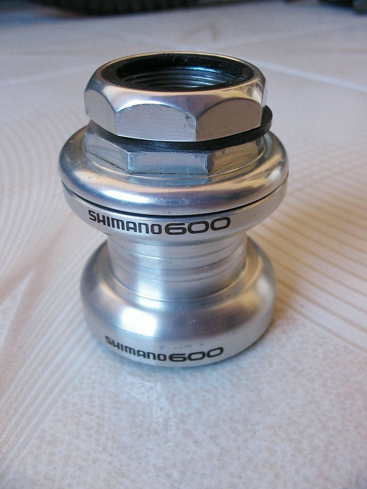 Shimano 600 bicycle headset, threaded, 1""